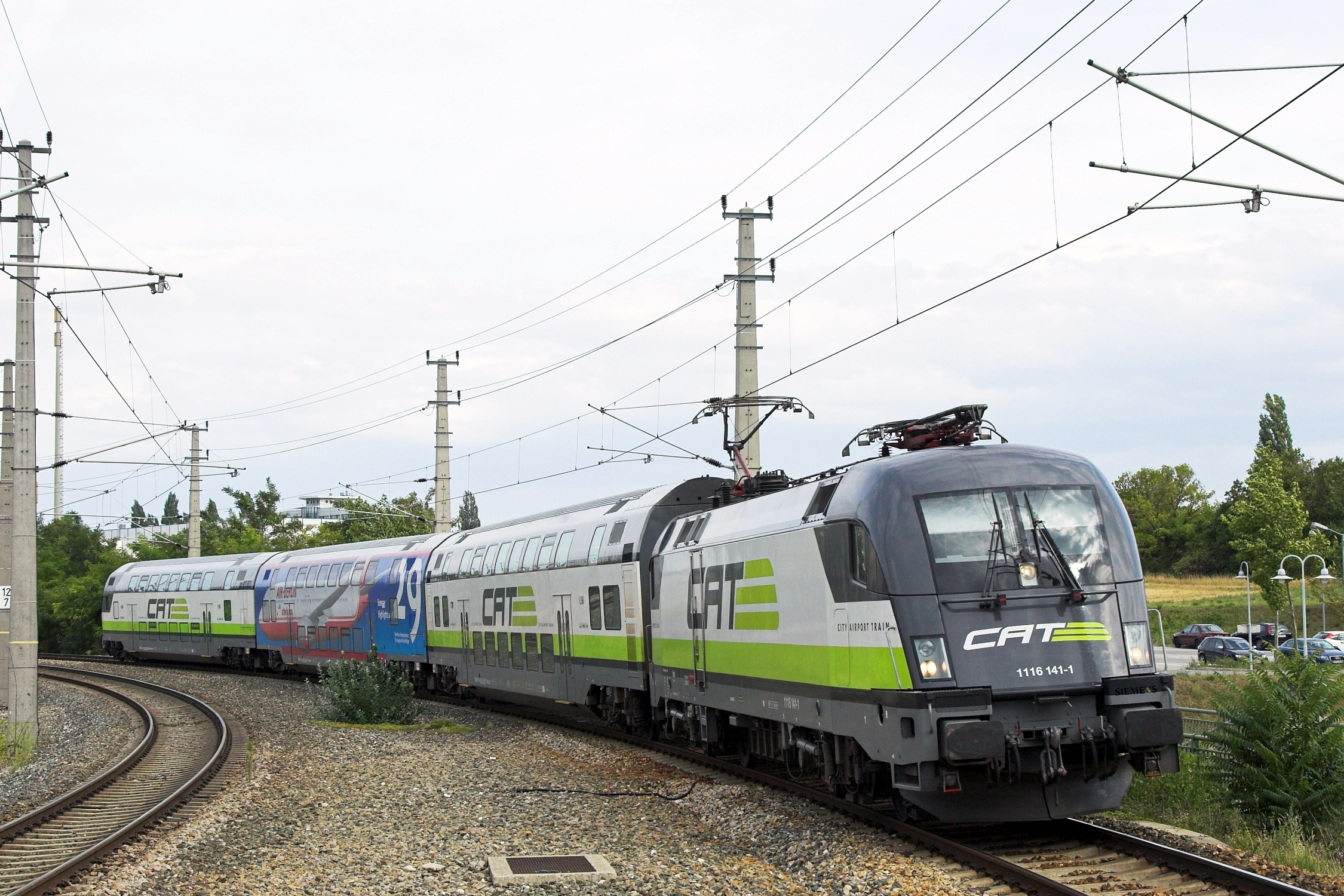 en: City Airport Train with class 1116 engine passing Schwechat station de: City Airport Train mit Lok der Reihe 1116 fährt durch den Bahnhof Schwechat